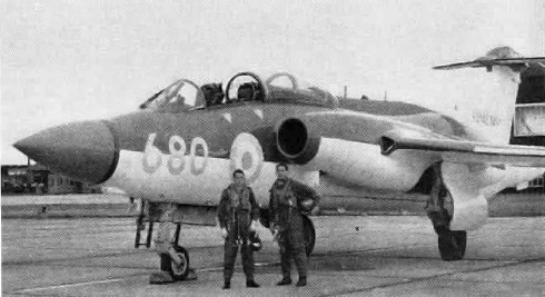 U.S. Navy exchange pilot Lt. W.W. Foote (right) and his Royal Navy observer Lt. D.J. Allen in front of a Royal Navy Blackburn Buccaneer S.1 of No. 700Z squadron at "HMS Fulmar", the RN airbase at Lossiemouth, Scotland (UK), ca. 1961.